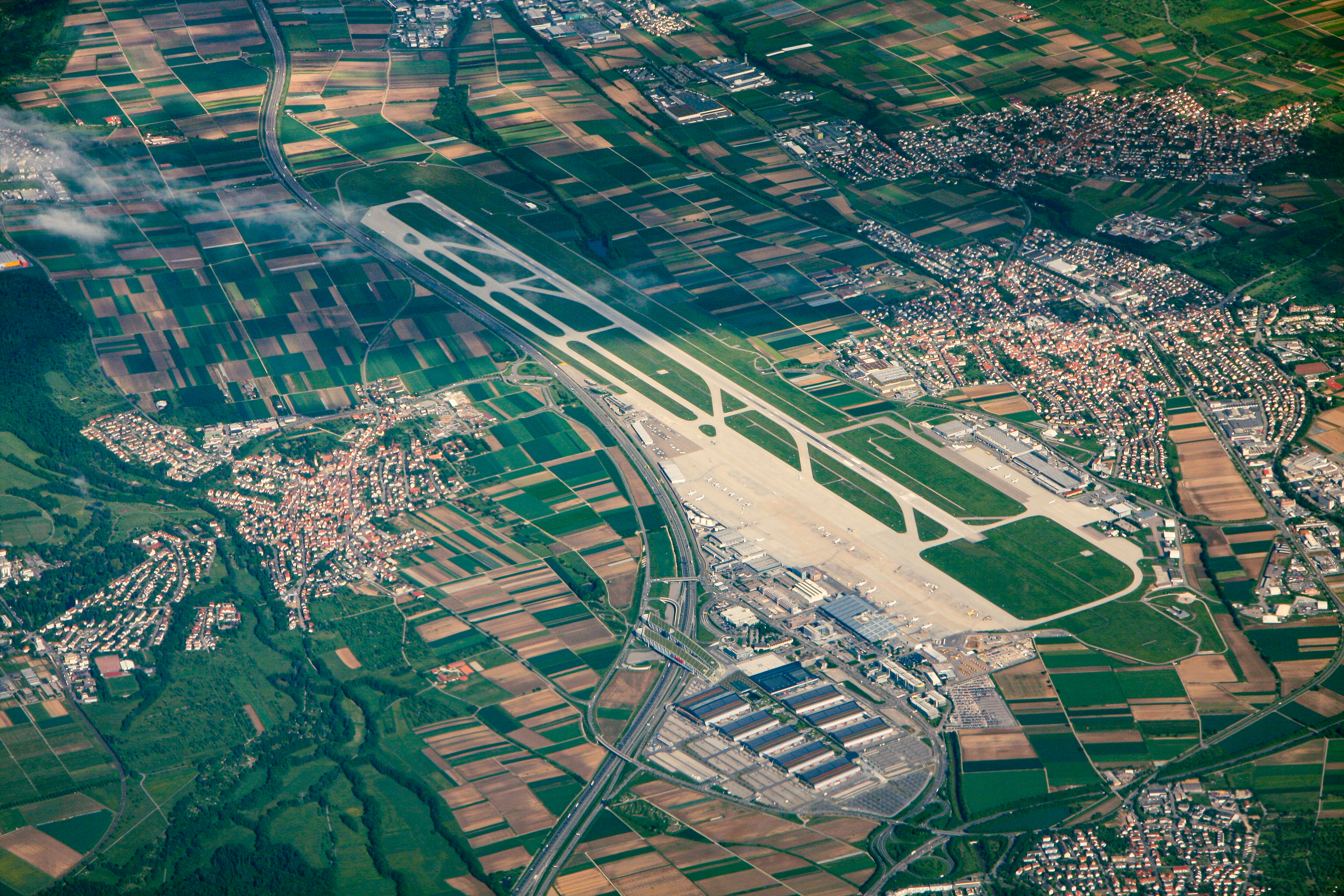 Aerial photo of Stuttgart Airport, Germany